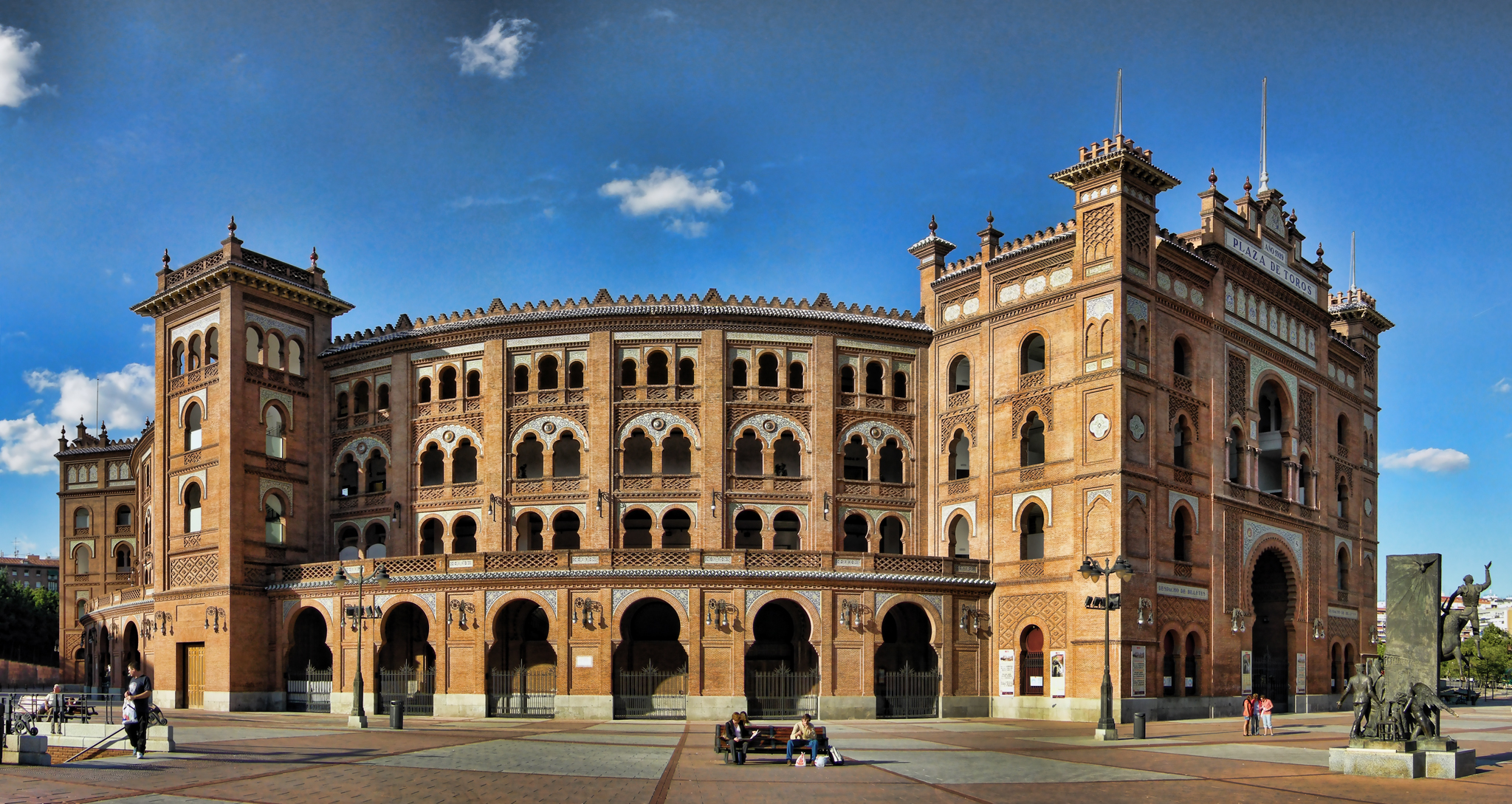 View of Las Ventas Bullring in Madrid (Spain).